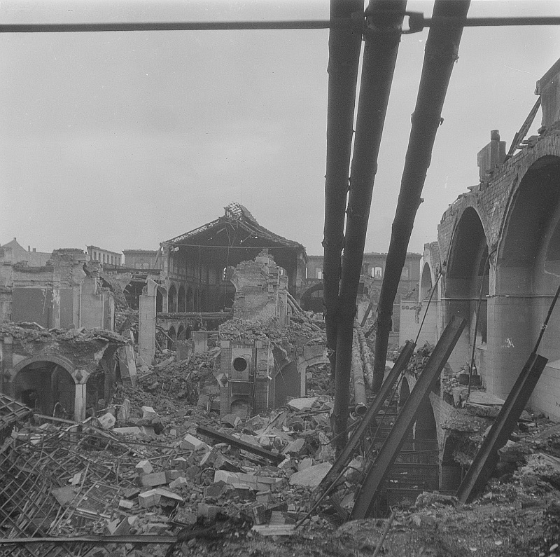 Original image description from the Deutsche Fotothek Markthalle